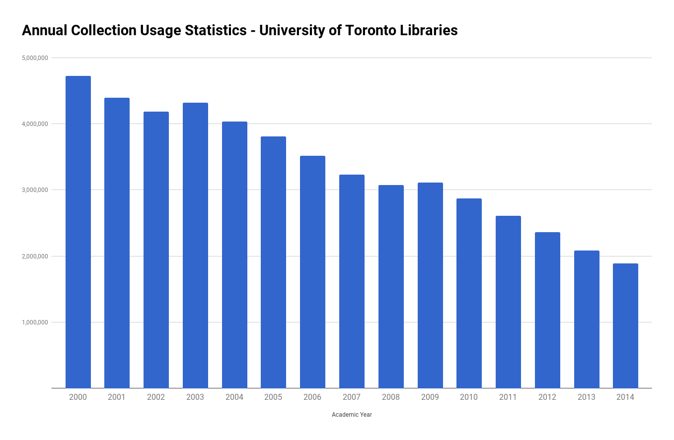 University of Toronto Libraries - Library statisticsChart created in Google Docs, data from: Note: In 2003 Ontario eliminated grade 13, thus almost doubled the number of first year students entering U of T, and is the main reason behind the spike in the graph.